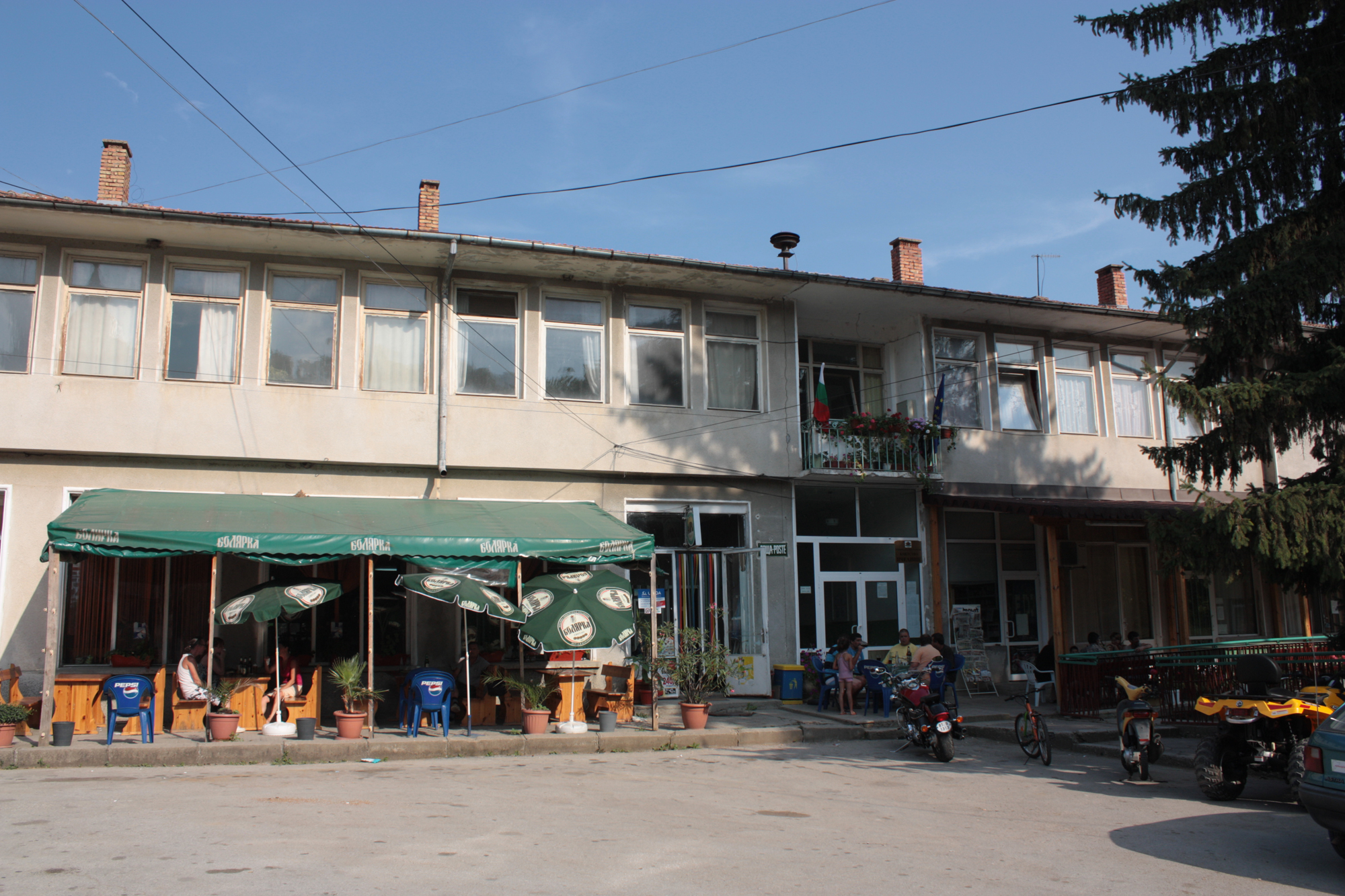 Municipality and post offices building in Pchelishte, Bulgaria